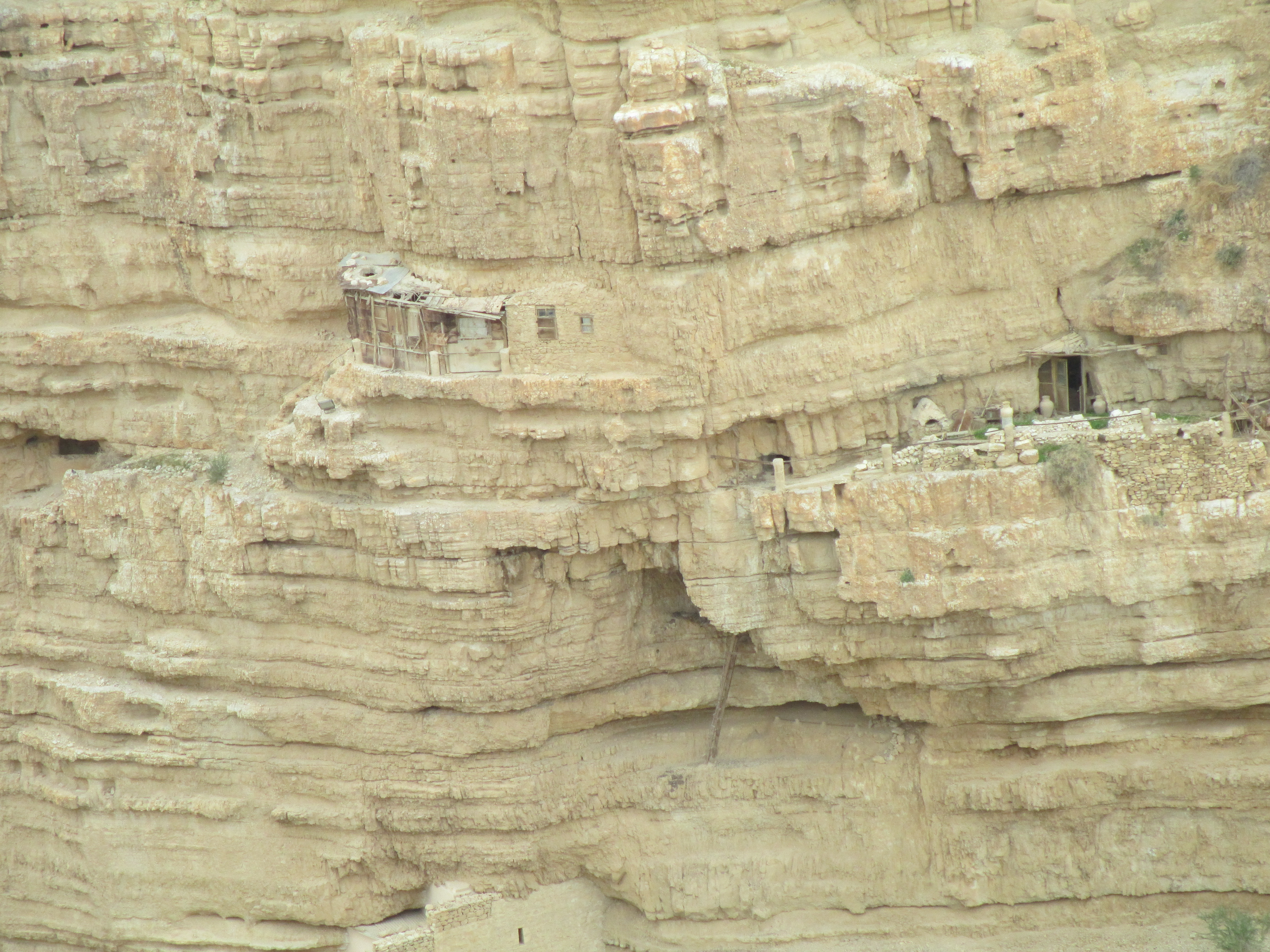 St. George Monastery (Wadi Qelt)